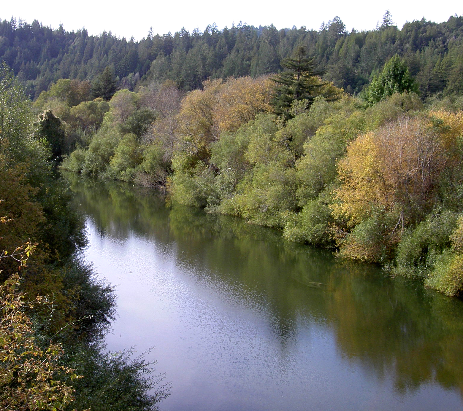 Austin Creek in Sonoma County, California, looking downstream from the State Route 116 bridge